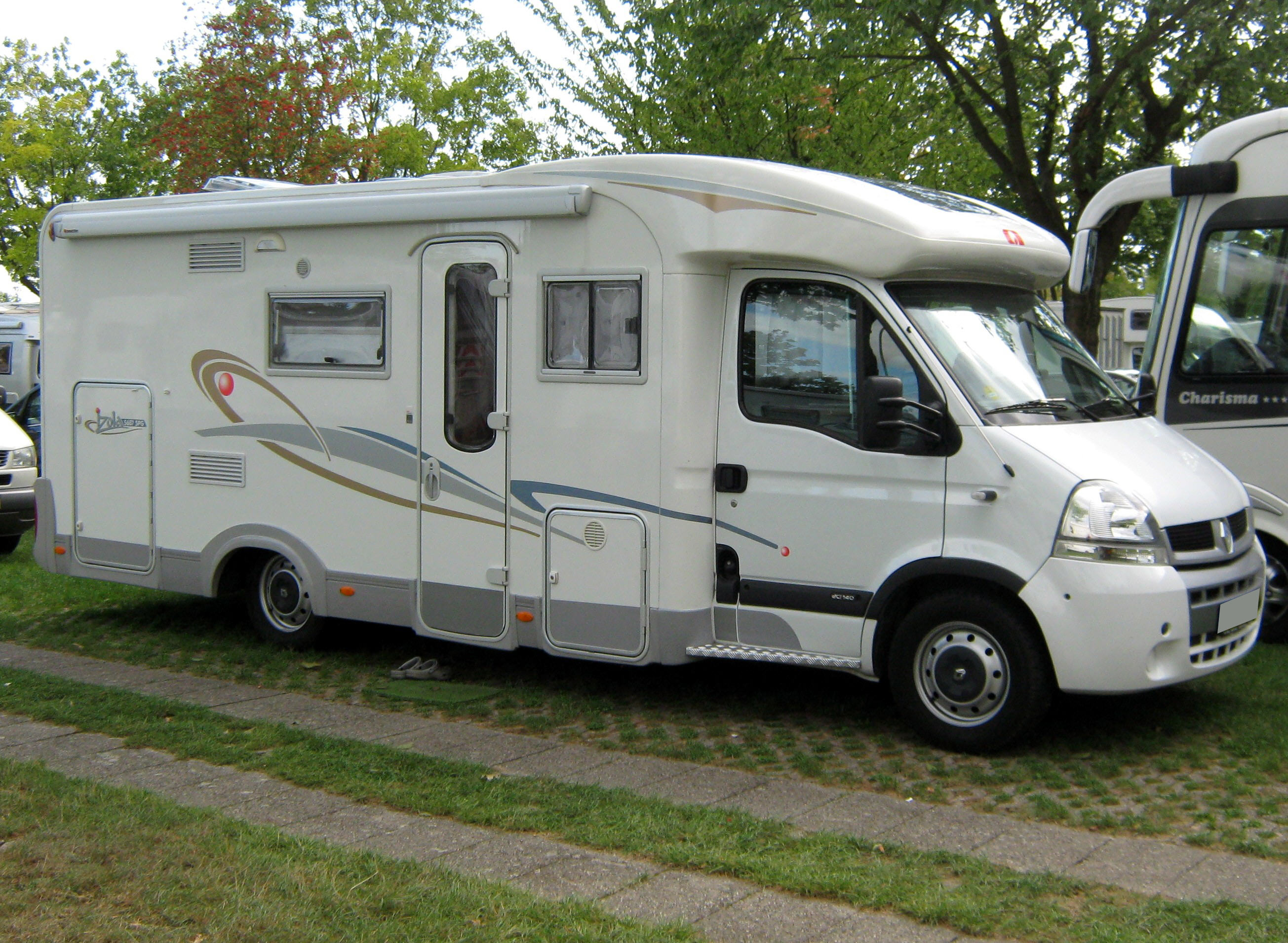 Adria Izola S 687 SP RV